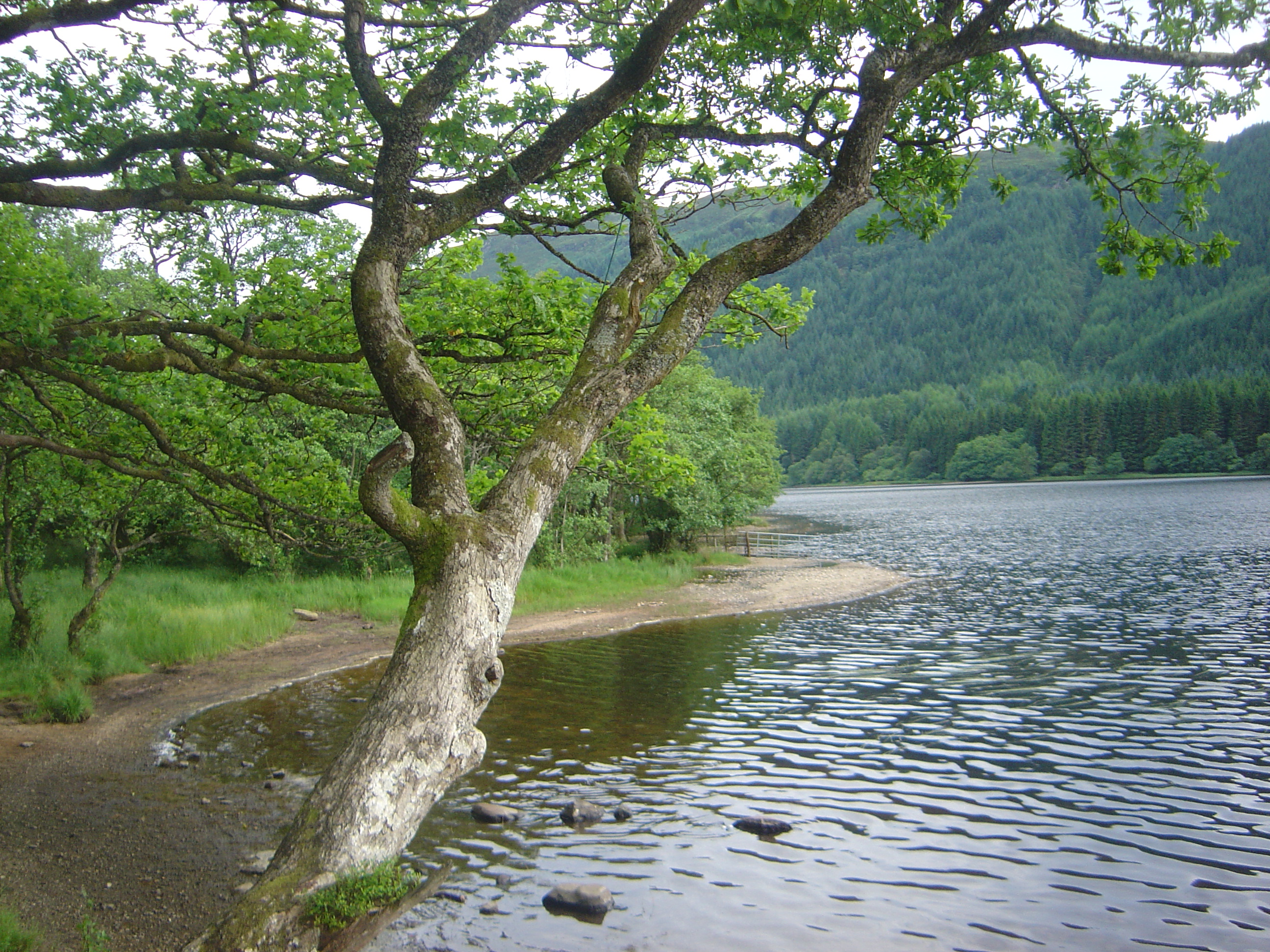 a loch (probably Loch Chon) in the Trossachs, Scotland